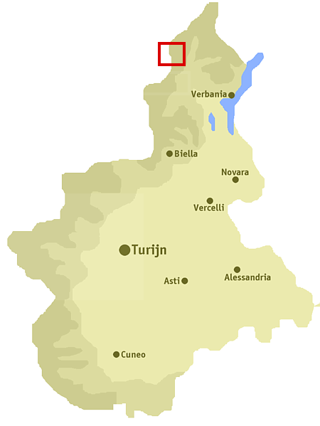 Position of the valley Val Divedro